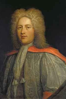 Thomas Murray. The portrait of Dr. William Croft (?)